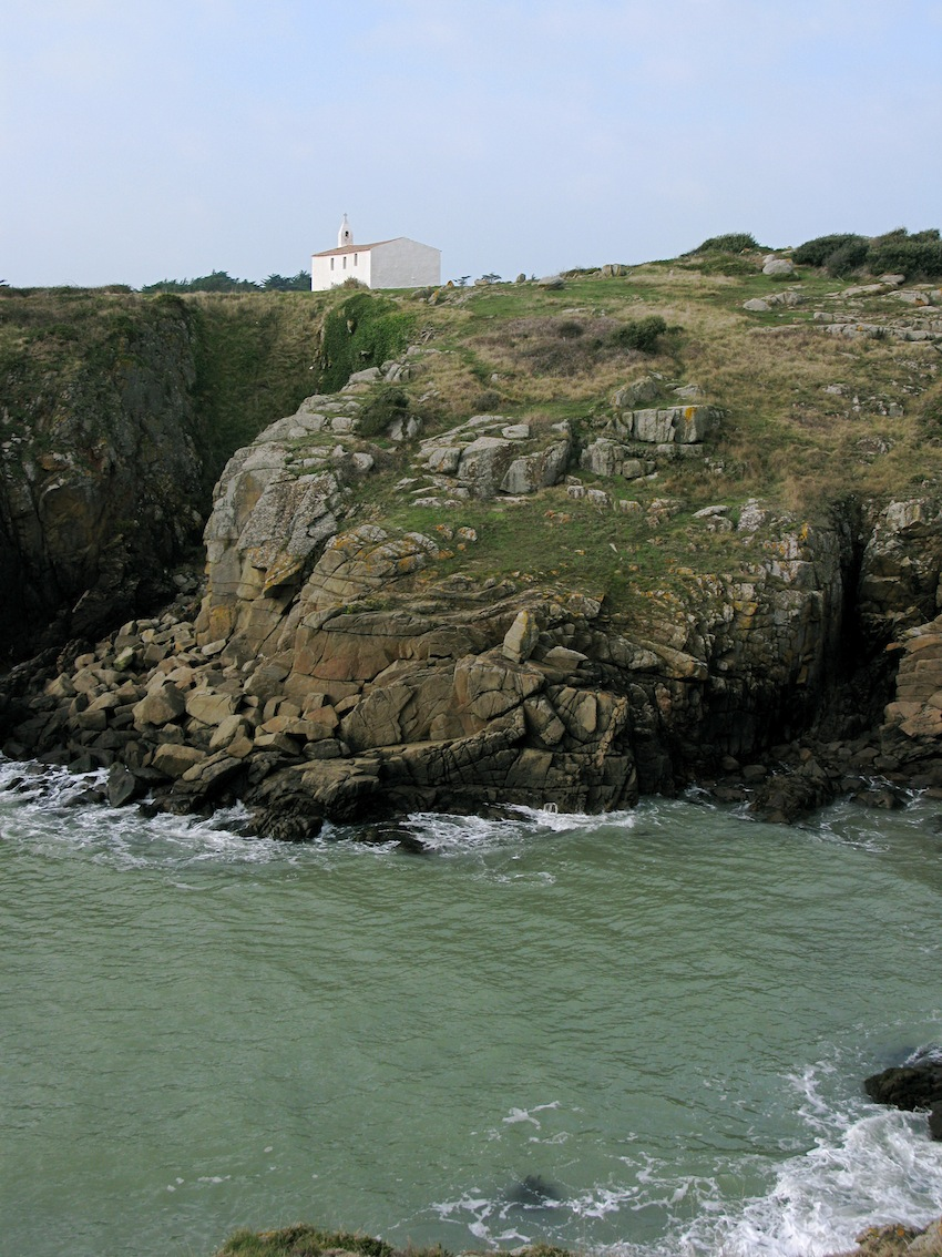 View of the small Notre Dame de Bonne Nouvelle Chapel, on the Isle of Yeu (France).